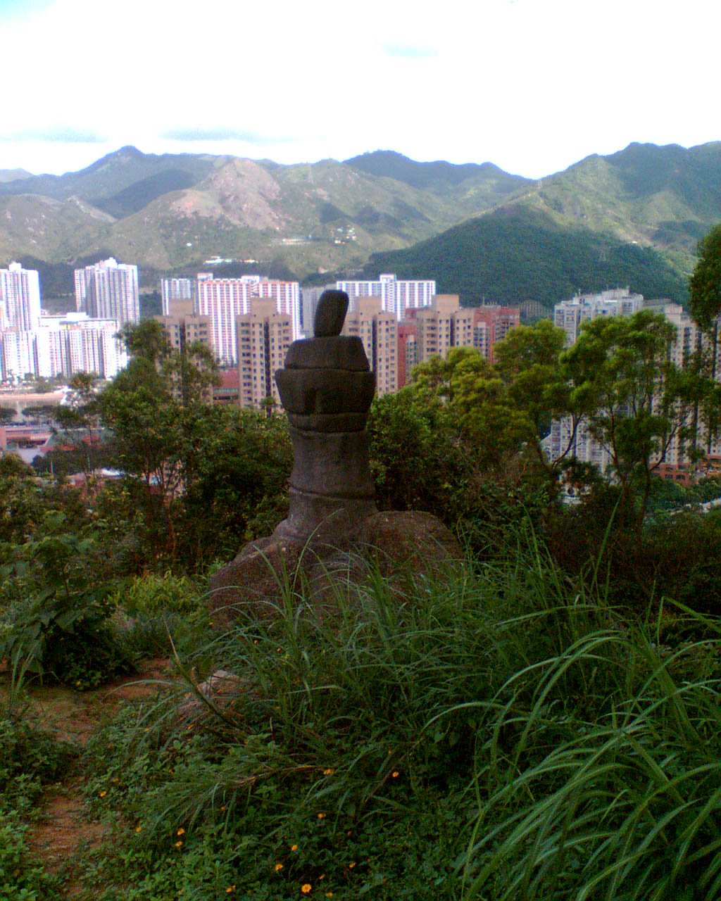 道風山小望夫石A replica of Amah Rock, located at Tao Fung Shan.